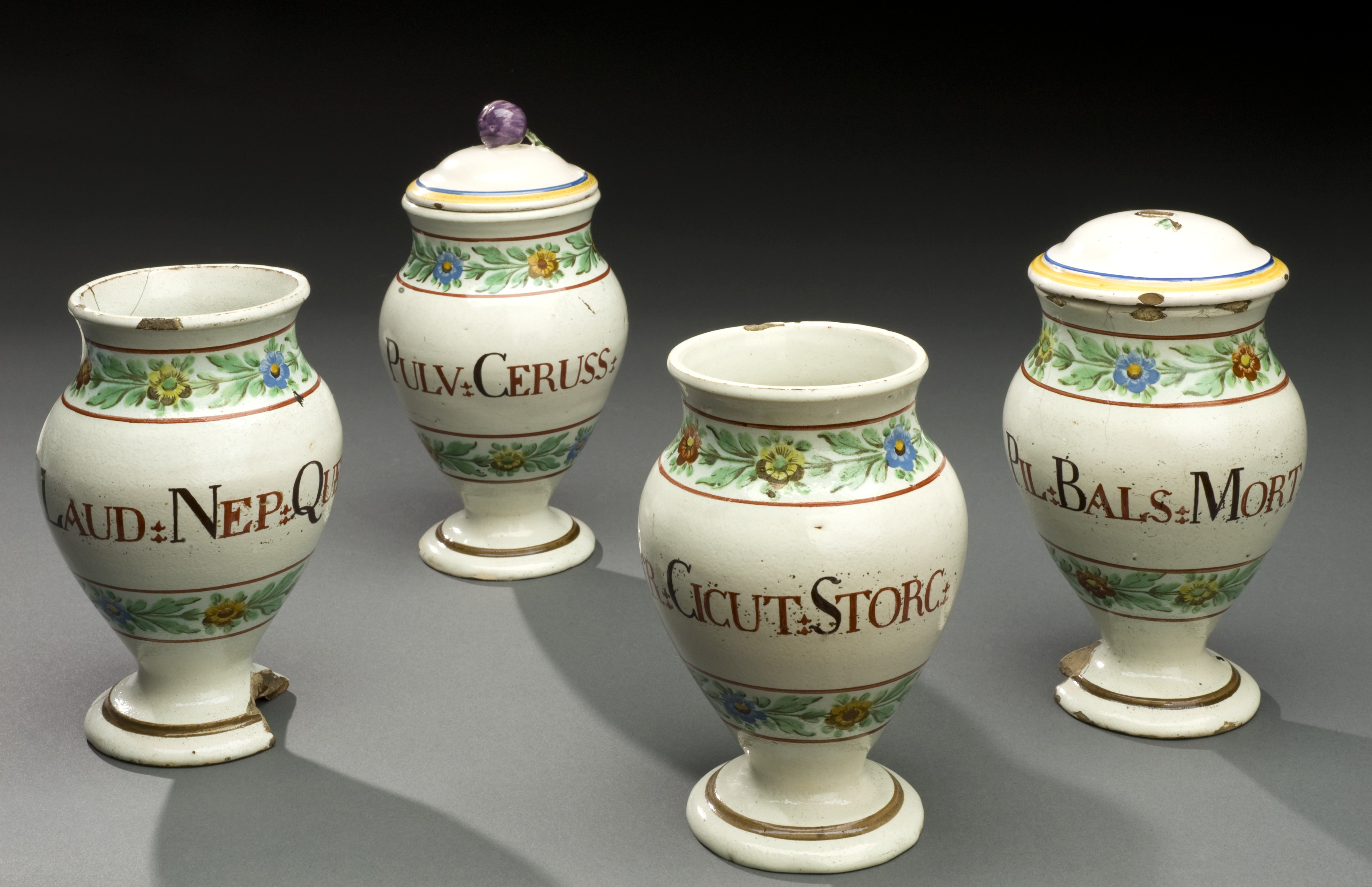 Some of the ingredients used in medical treatments seem to belong to the world of fantasy rather than pharmacy. On the far left is a dispensing pot labelled “LAUD:NEP:QUERC”. This is laudanum, a treatment made from opium, gold and pearls. Mixed with a powdered bezoar stone from the stomach of an animal and shavings of mythical unicorn horn, the medicine was given to aid sleep and ease pain. The jar, one of four shown here, was presented as a gift to the Wellcome collection on the previous owner’s death in 1932. maker: Unknown maker Place made: Italy Wellcome Images Keywords: laudanum; Opium; controlled drug; Pharmacy; dispensing pot; bezoar